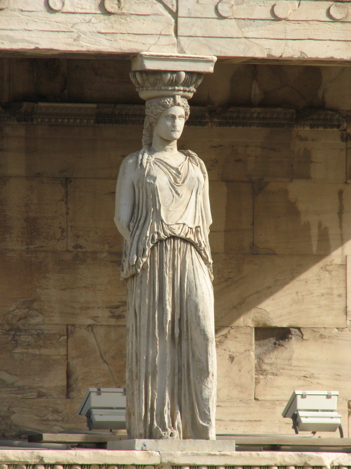 A detail of the karyatides, at Etechteion, Akropolis, Athens, Greece.